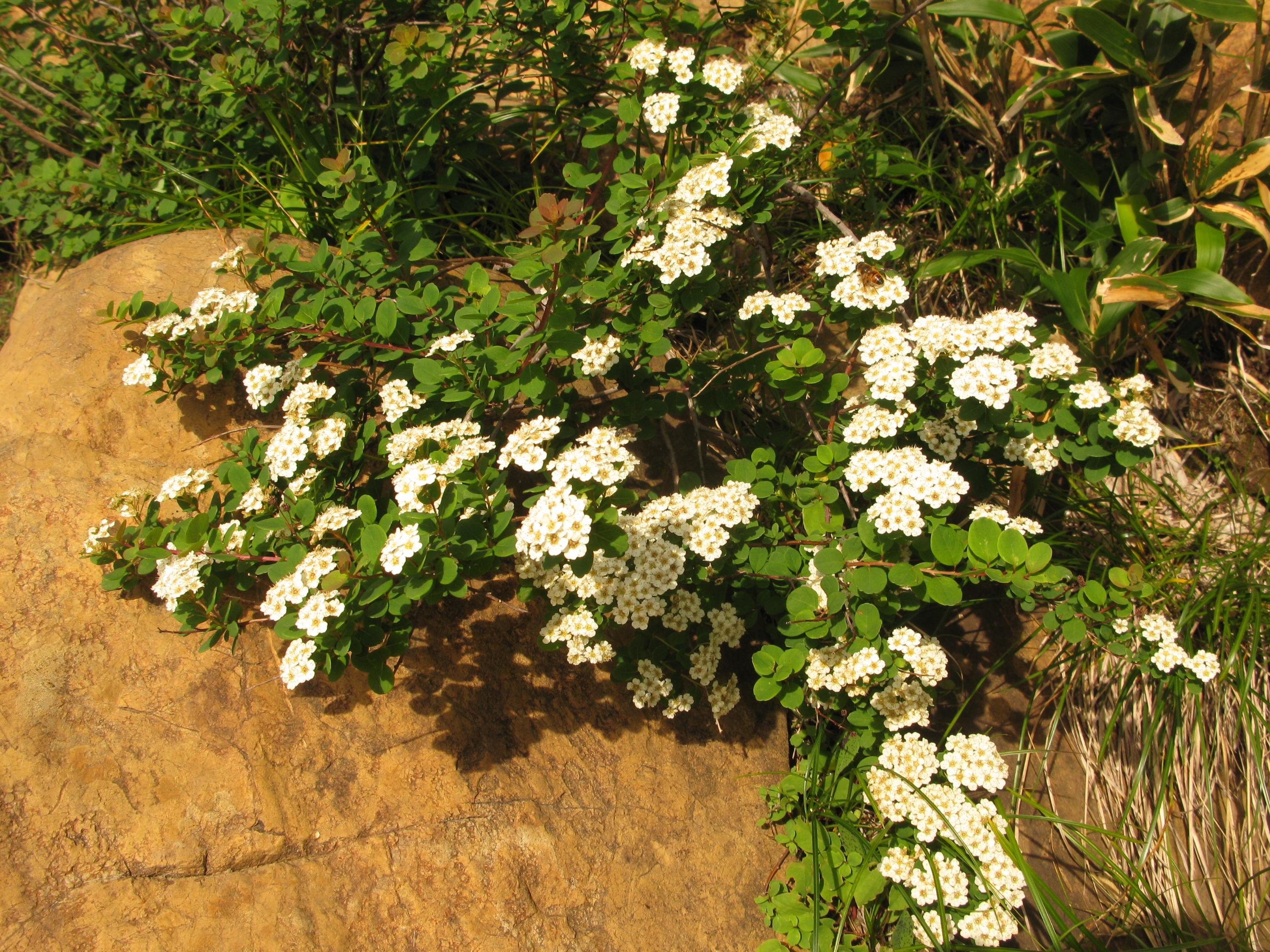 Spiraea nipponica, Mount Shibutsu, Gunma pref., Japan